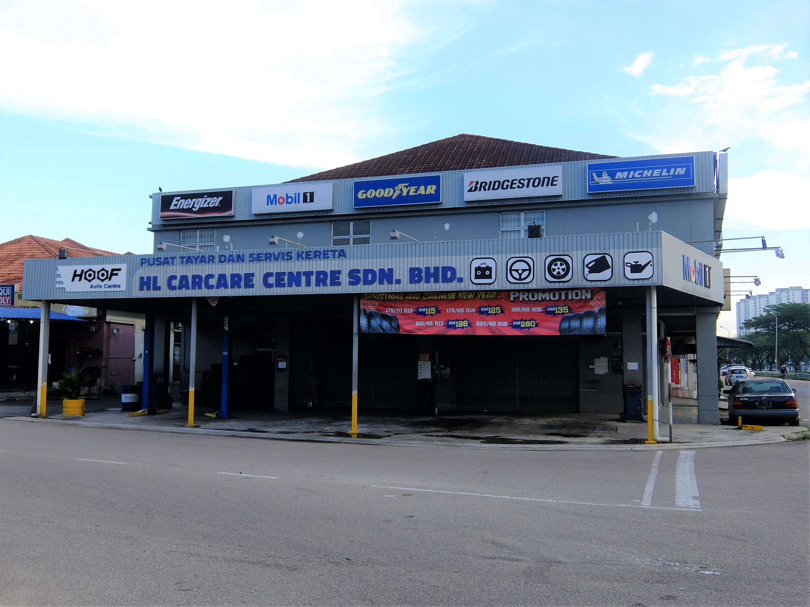 HL Carcare Centre, Bukit Indah, Iskandar Puteri, Johor Bahru, Johor, Malaysia